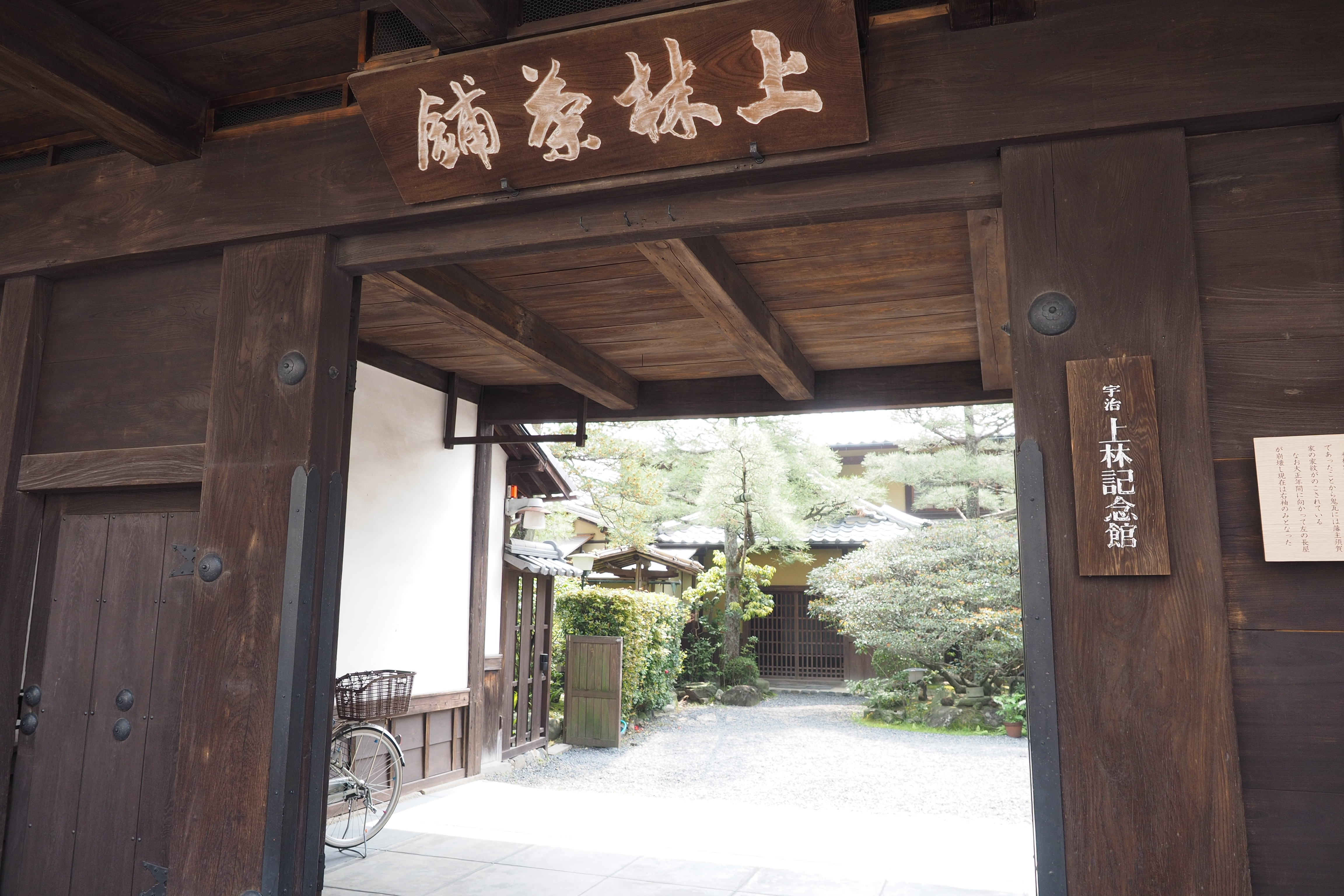 Uji Kanbayashi Memorial